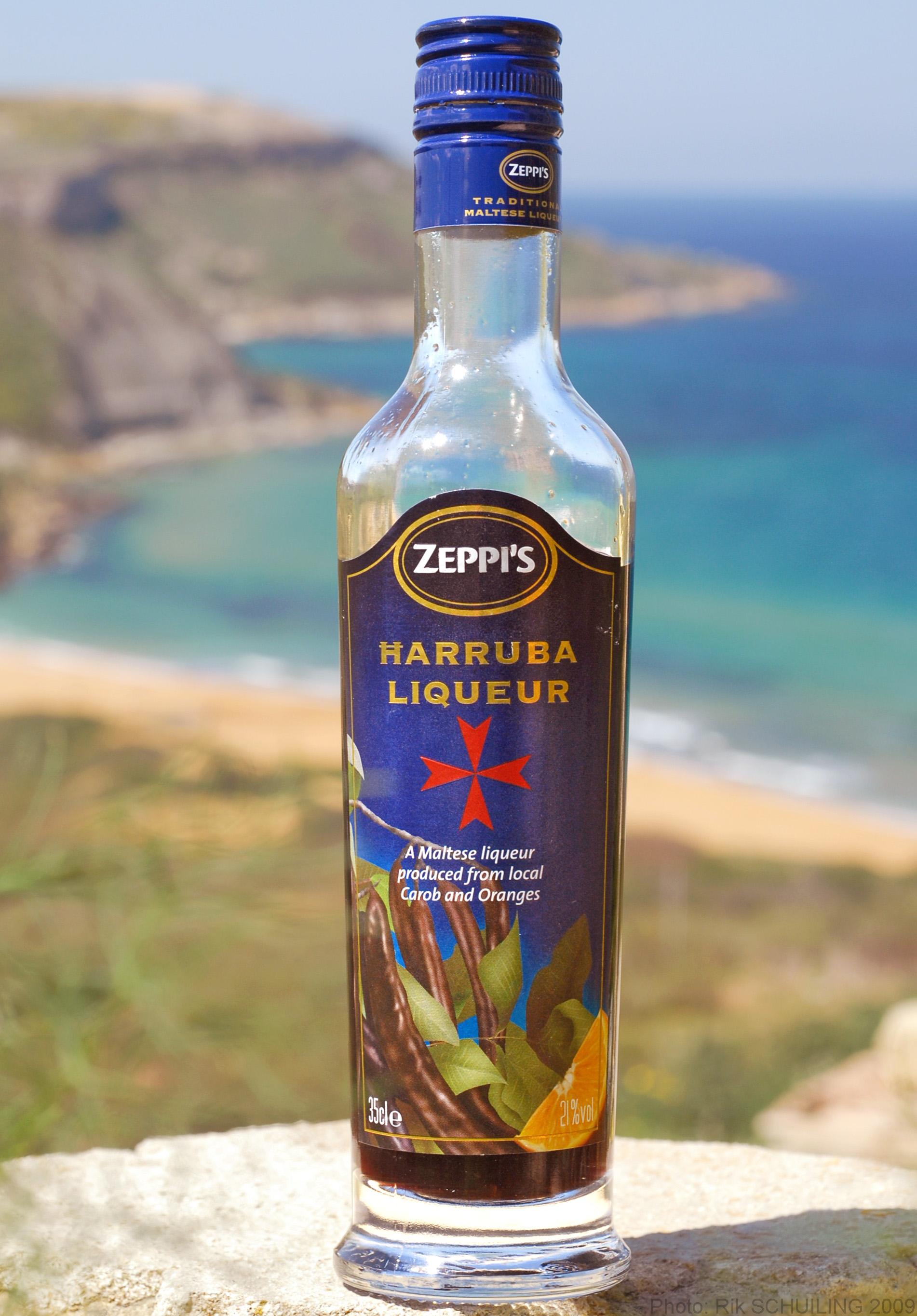 A bottle of Maltese carob liqueur with the north coast of Gozo Island in the background (Malta, April 2009)